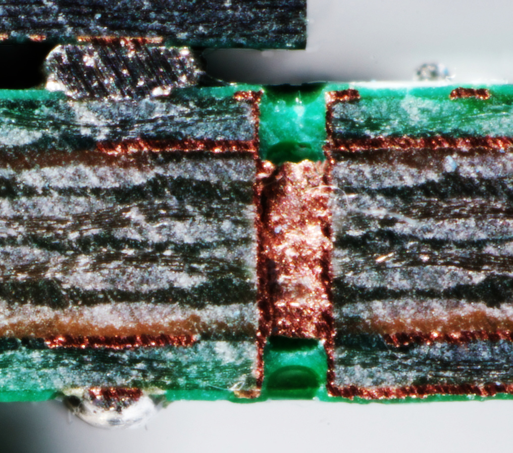 Cut through an SDRAM-Module. It is a multi-layer Printed Circuit Board (PCB) with BGA-packaging. On the right side a via.